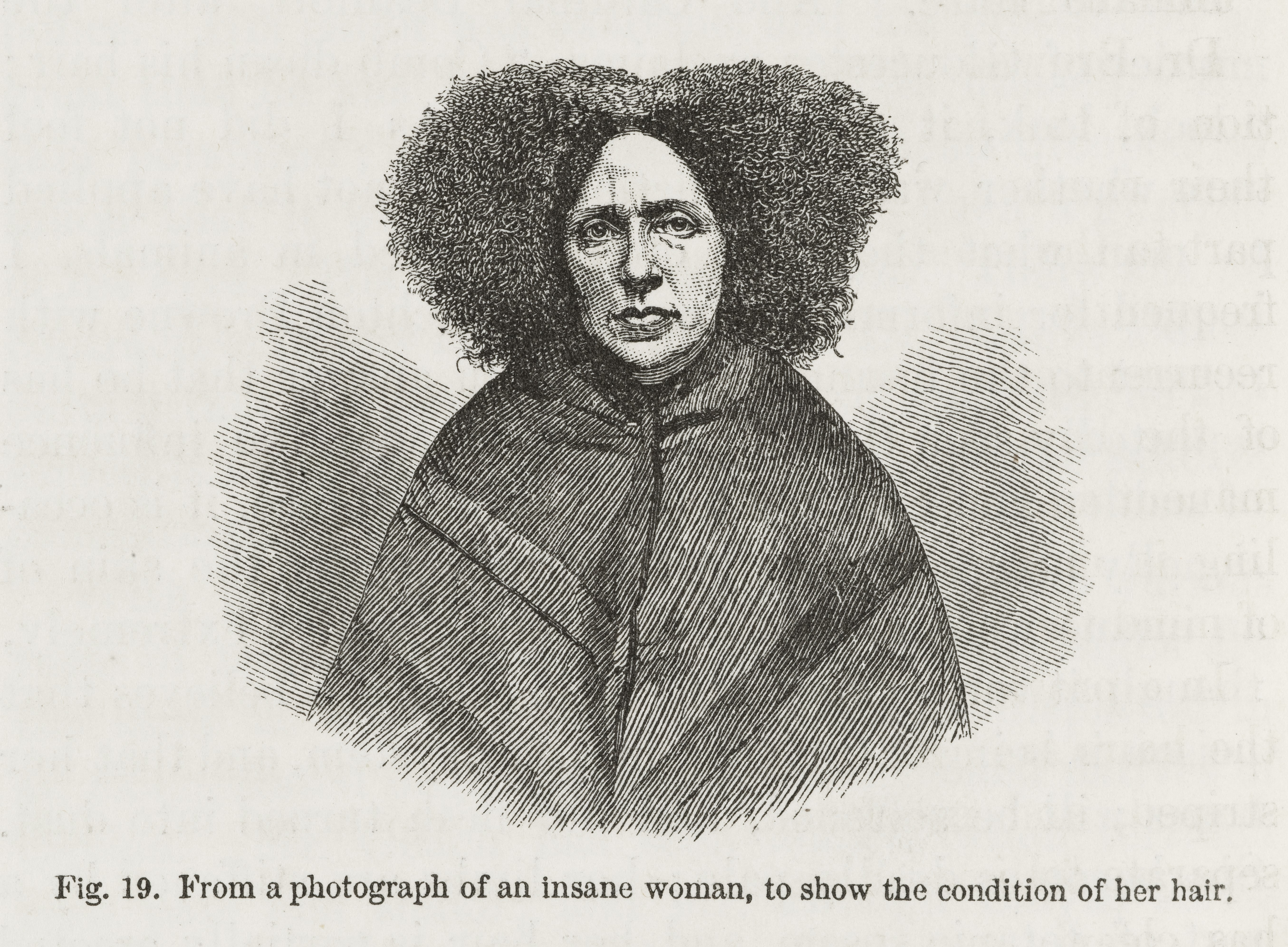 Illustration from Chapter Xlll, Surprise, Astonishment, Fear, Honour. Engraving from a photograph of an insane woman to show the condition of her hair. It's dryness, he states, is 'Consequent on the subcutaneous glands failing to act.' General Collections